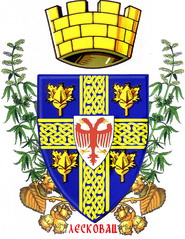 Leskovac grb grada